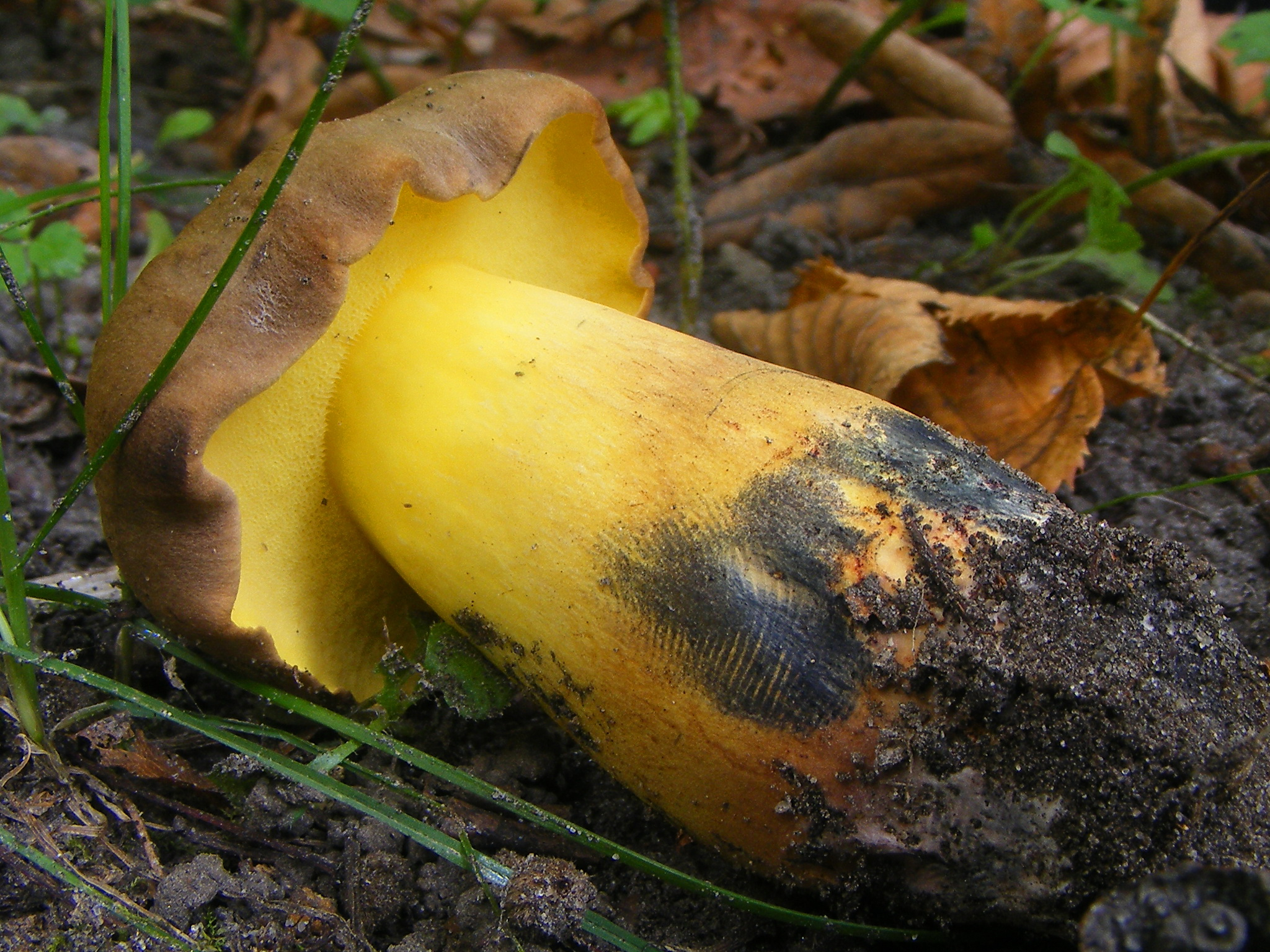 Boletus pulverulentus - young specimen, bruised stem.